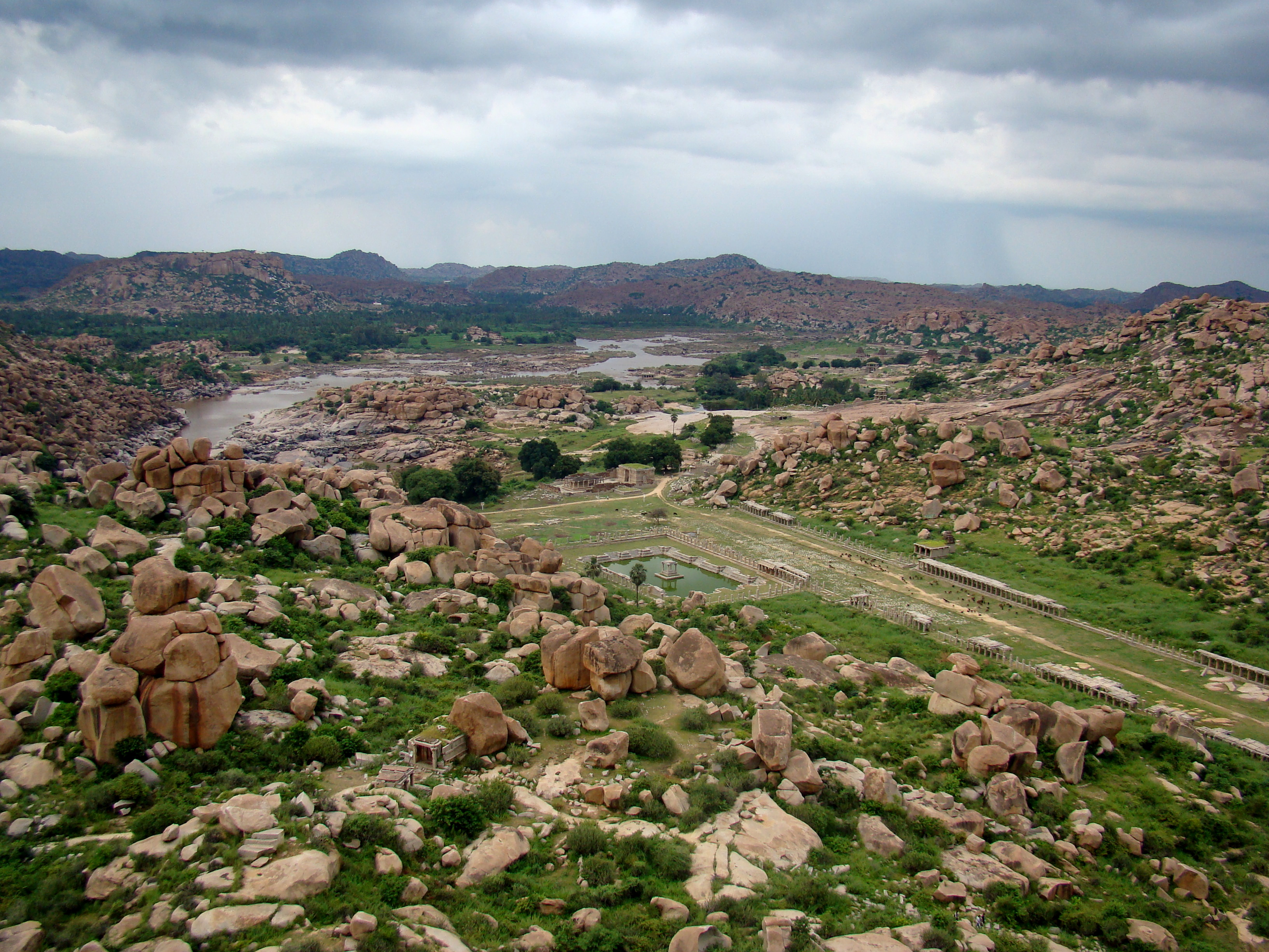 The ruins of Vijaynagar empire in the boulder strewn landscape of Hampi